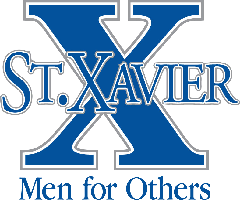 Primary logo of St. Xavier High School in Cincinnati, Ohio, since 2011.